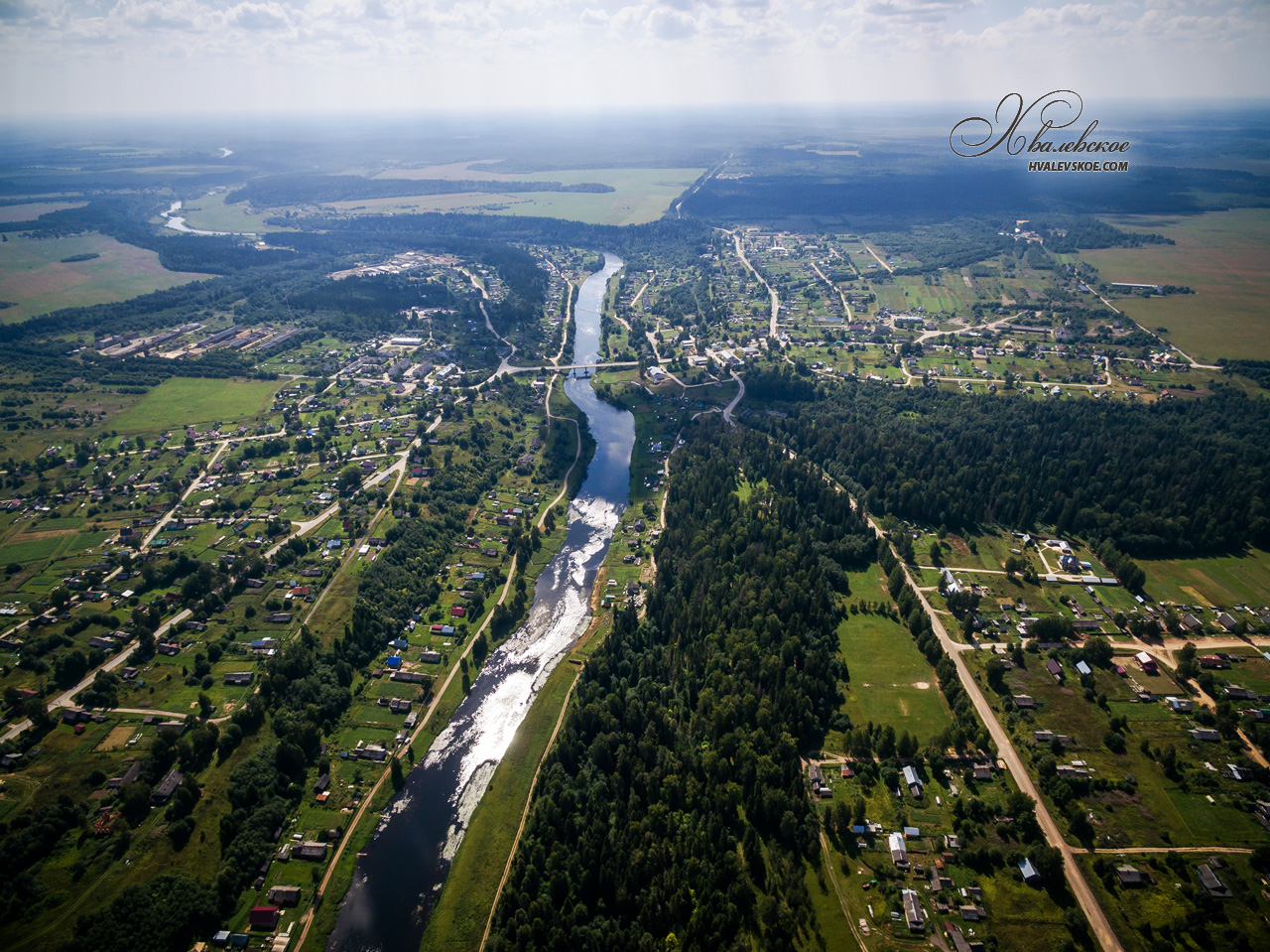 Aerial photo of Borisovo-Sudskoe village in Russia